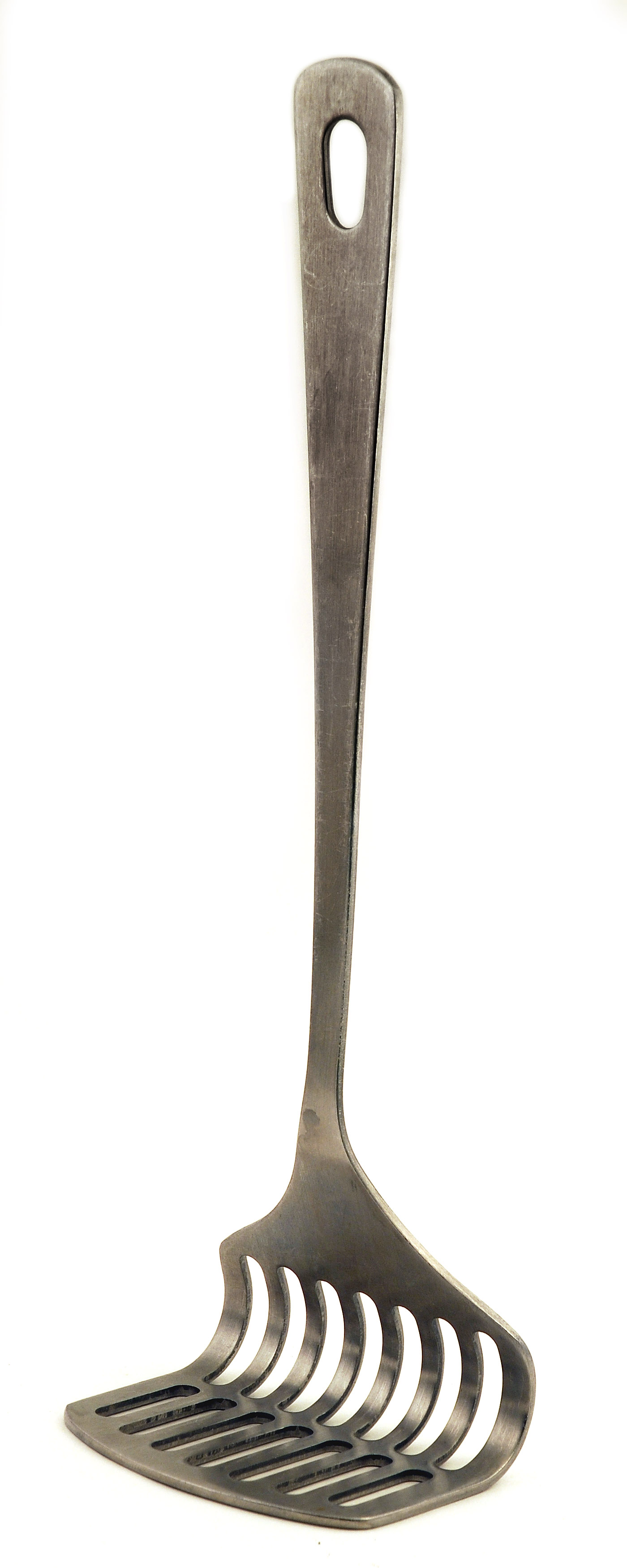 A kitchen potato masher.